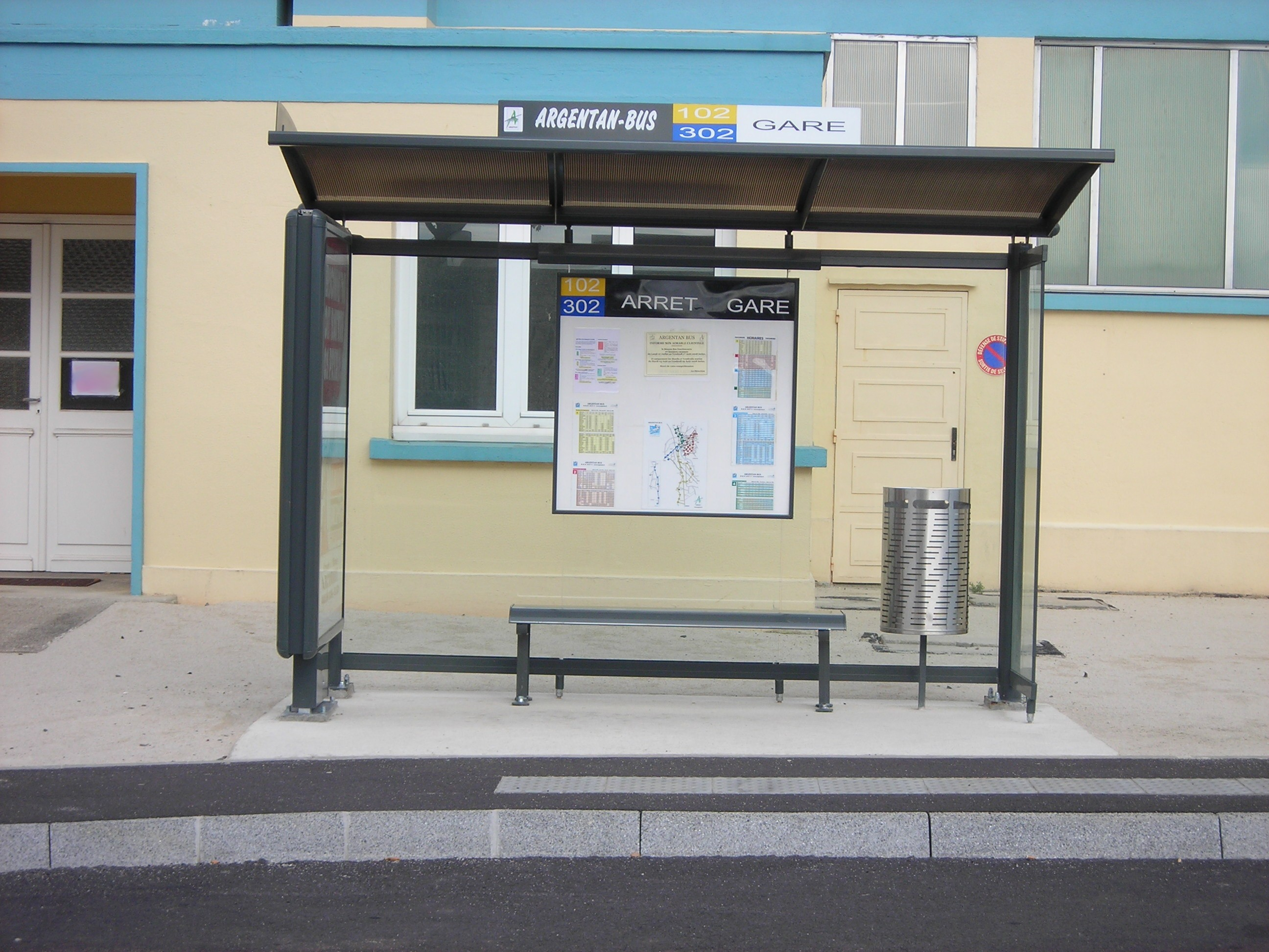 Abrit bus Argentan bus (Argentan, Orne, France)